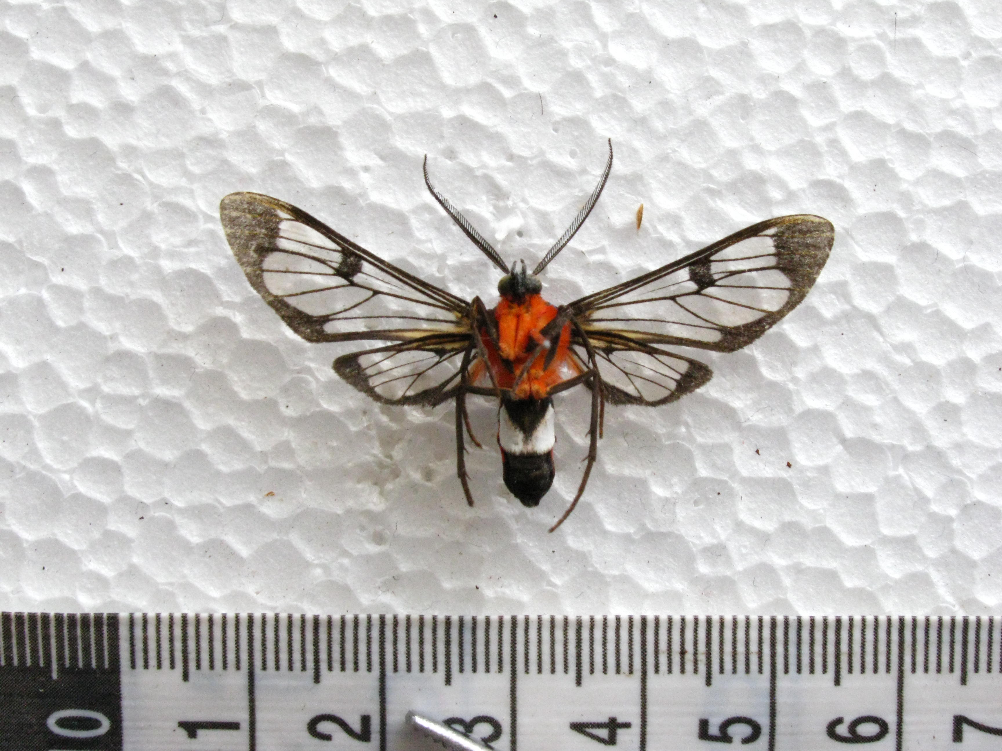 Ventral view of C. impar, from Zacapoaxtla, Puebla, Mexico.